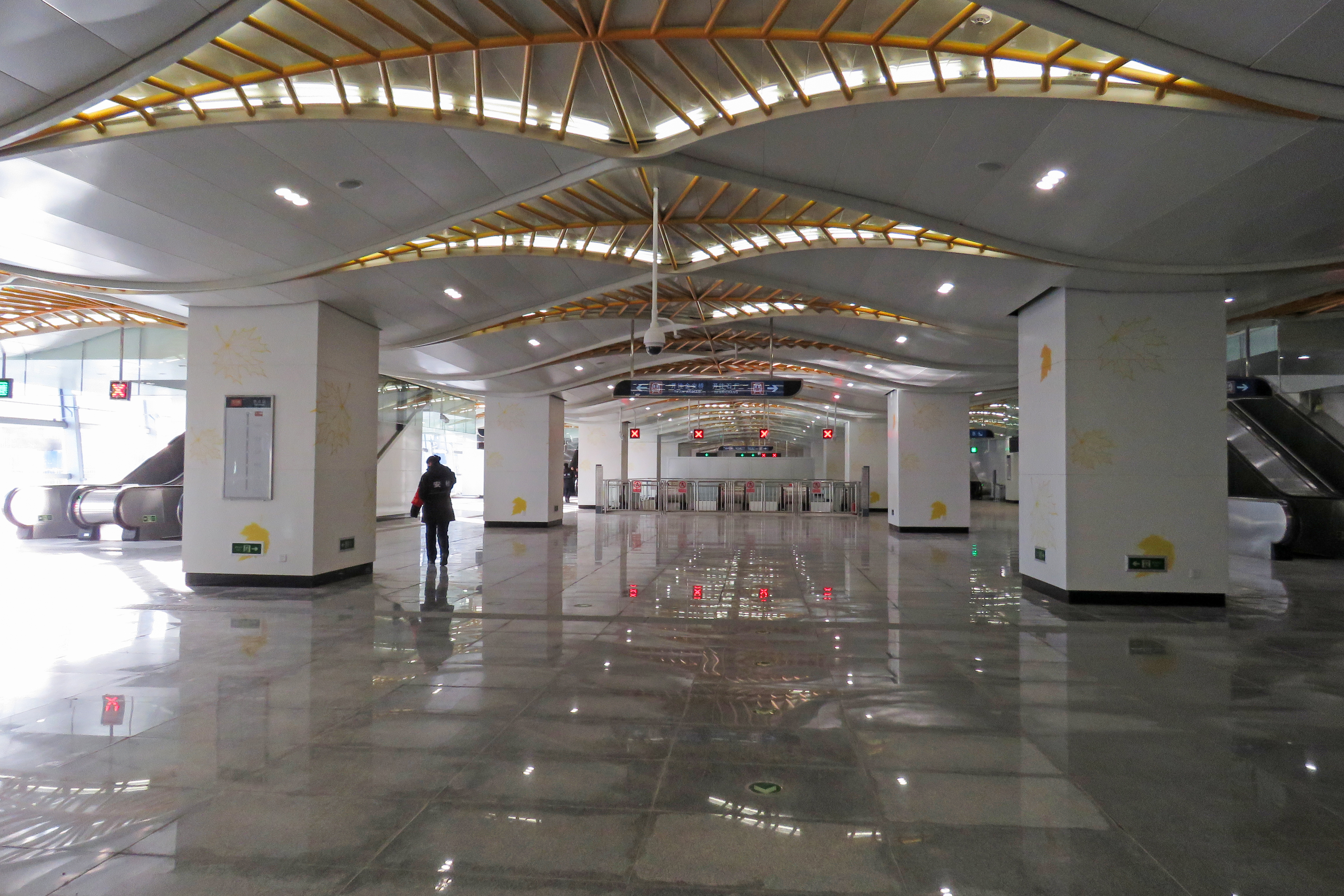 Yellow and white scheme.